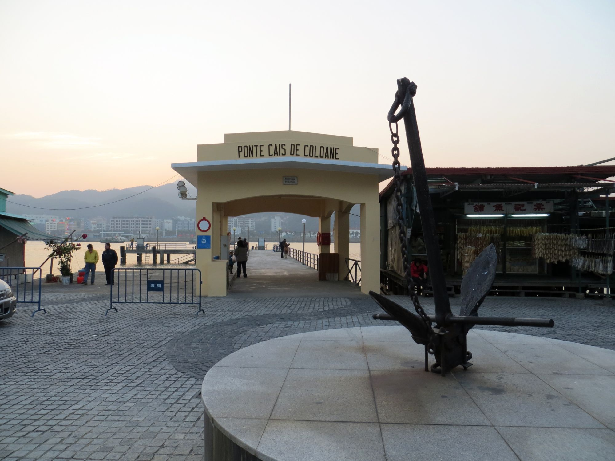 Coloane Pier at Coloane, Macau 中文（香港）: 澳門路環碼頭